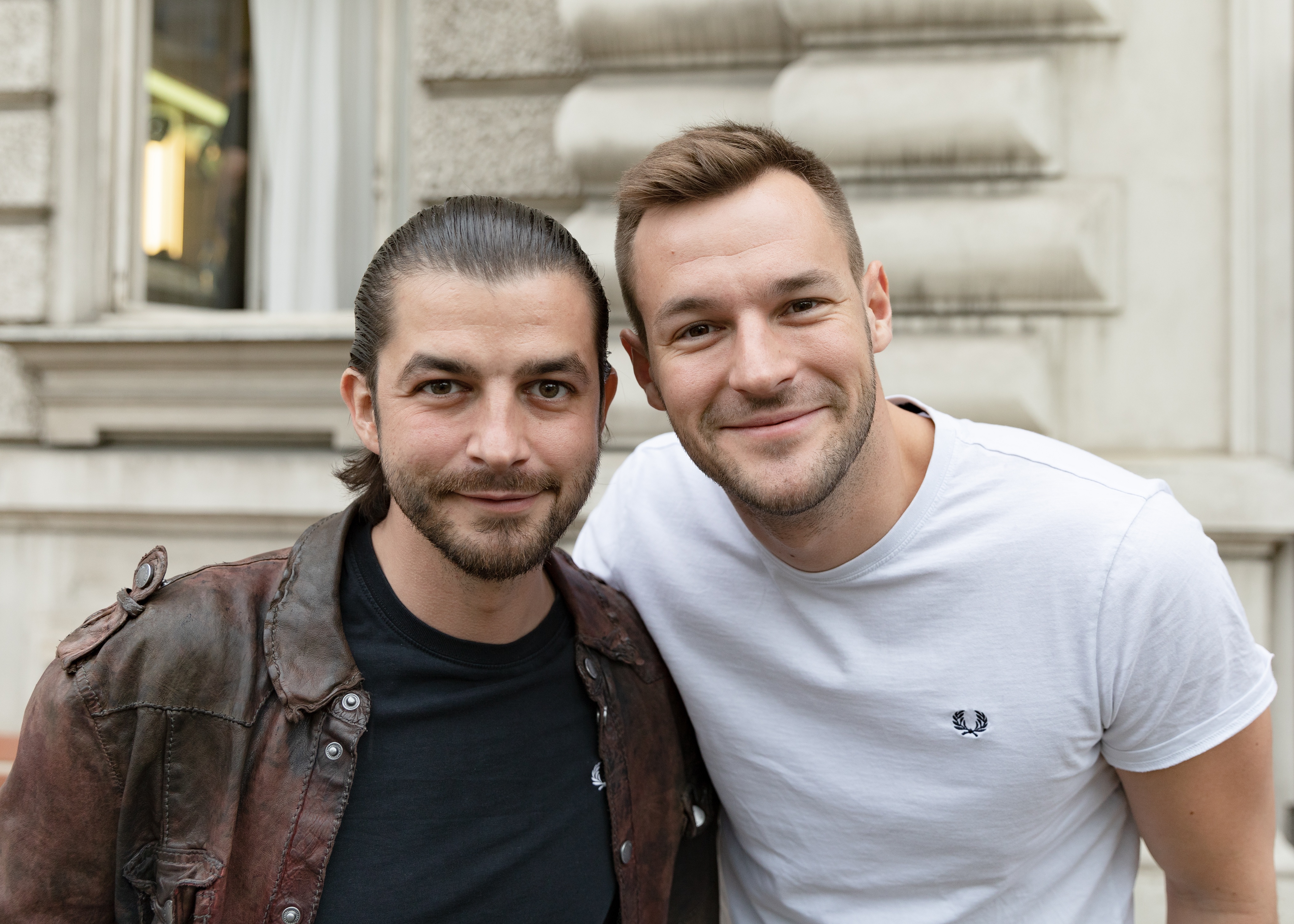 Pizzera & Jaus at the Amadeus Austrian Music Award 2018 at Volkstheater in Vienna.